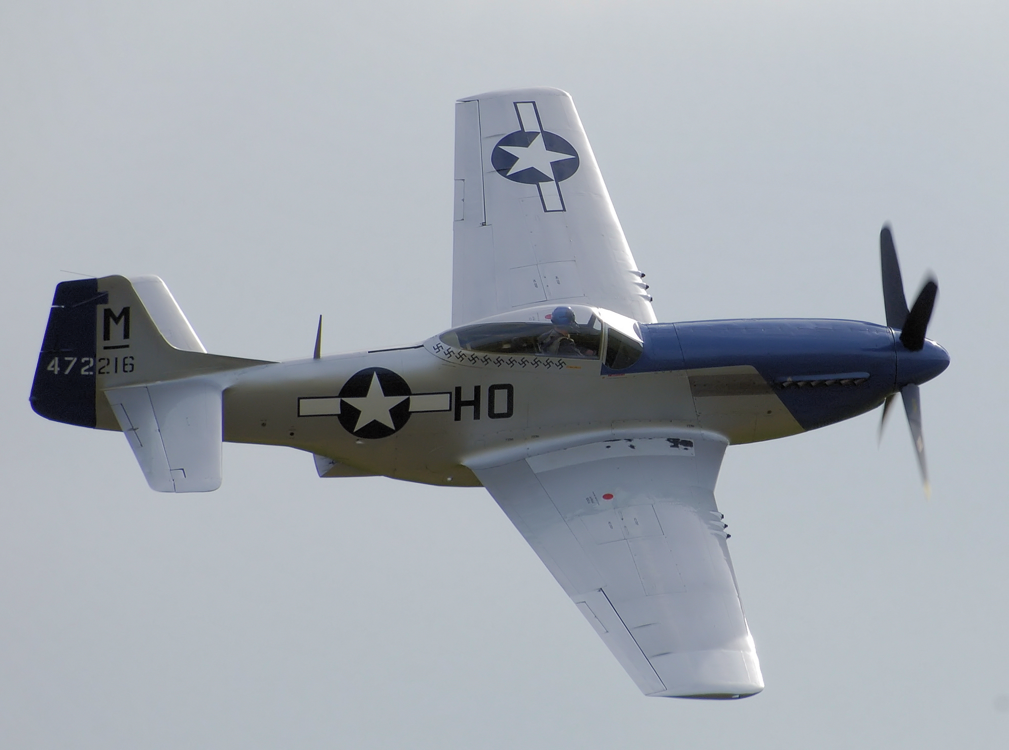 Preserved North American P-51D-20 (472216/HO-M, G-BIXL, Miss Helen) performing aerobatics at Kemble Airport Open Day, Gloucestershire, England, on 9th September 2007. Built in 1944. Photographed by Adrian Pingstone and placed in the public domain.